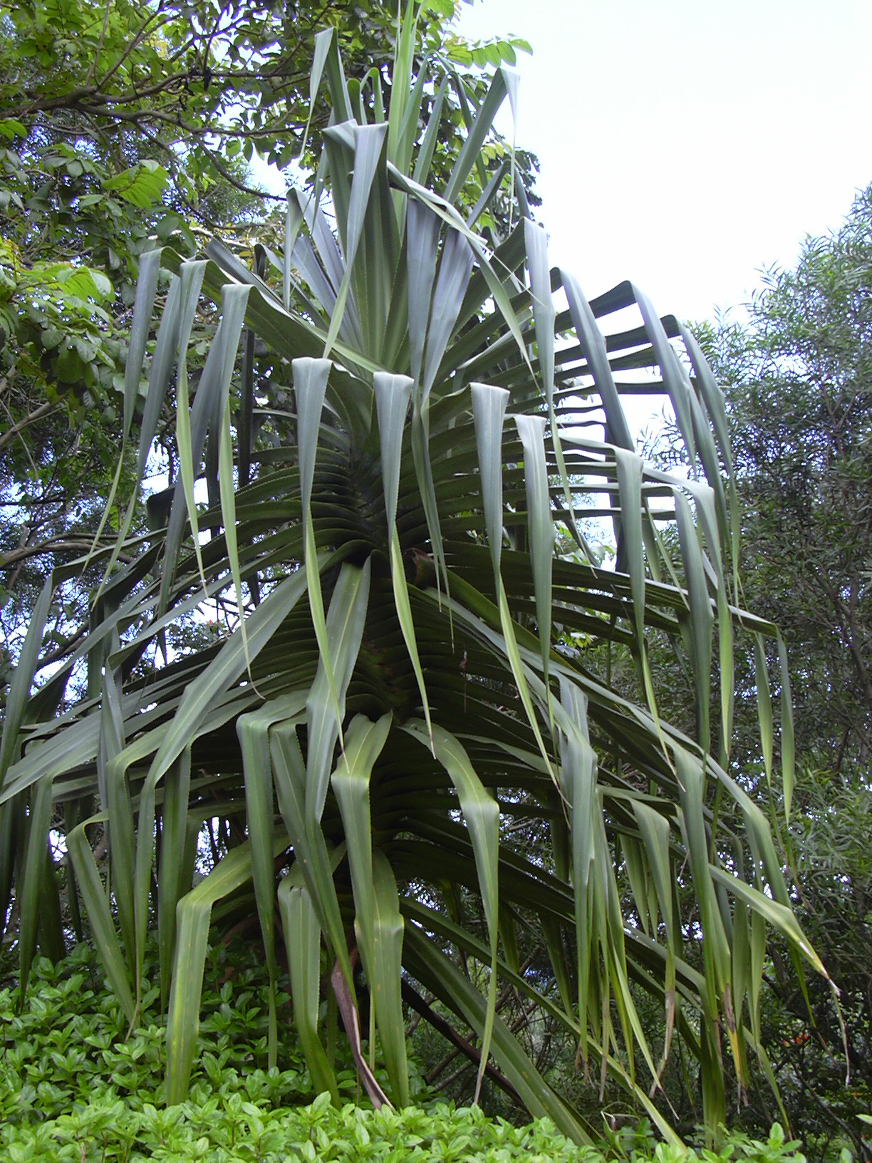 Pandanus tectorius (habit). Location: Maui, Hana Hwy